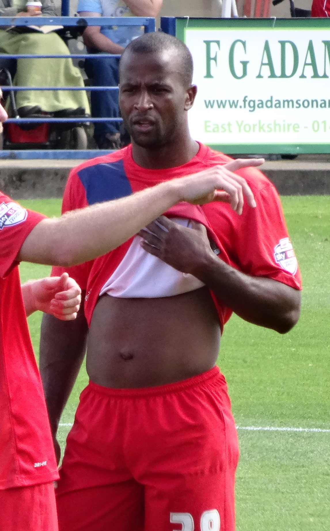 Stéphane Zubar playing for York City against Hartlepool United at Bootham Crescent, York on 15 August 2015